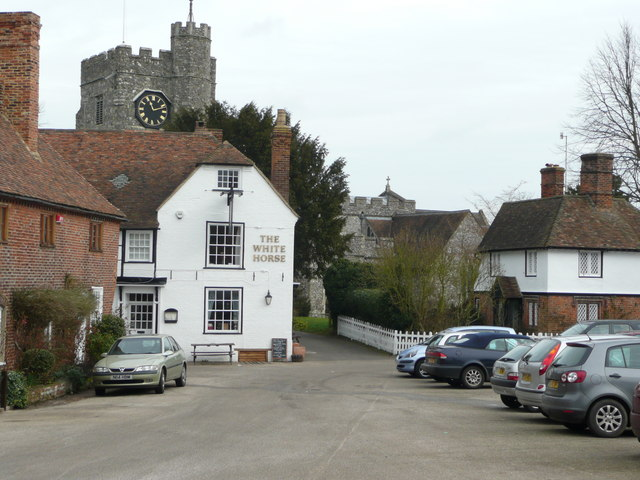 Chilham village square The picture postcard shot (minus cars) of the north end of one of the most photogenic village scenes in the UK. The photographer met first wife on this spot in 1982. Also rang a quarter peal at St. Mary's on the occasion of the birth of Prince William, and the 21st birthday of Princess Diana.